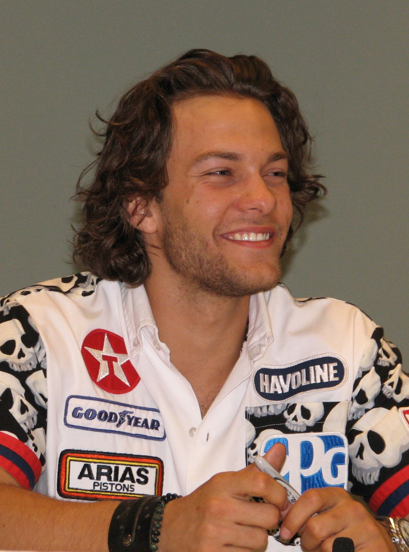 Kyle Schmid at Megacon, Orlando Florida, March 2008. Photo taken by me, Anne Petersen, . Shirt by Jimmy Star, Fort Lauderdale, Florida